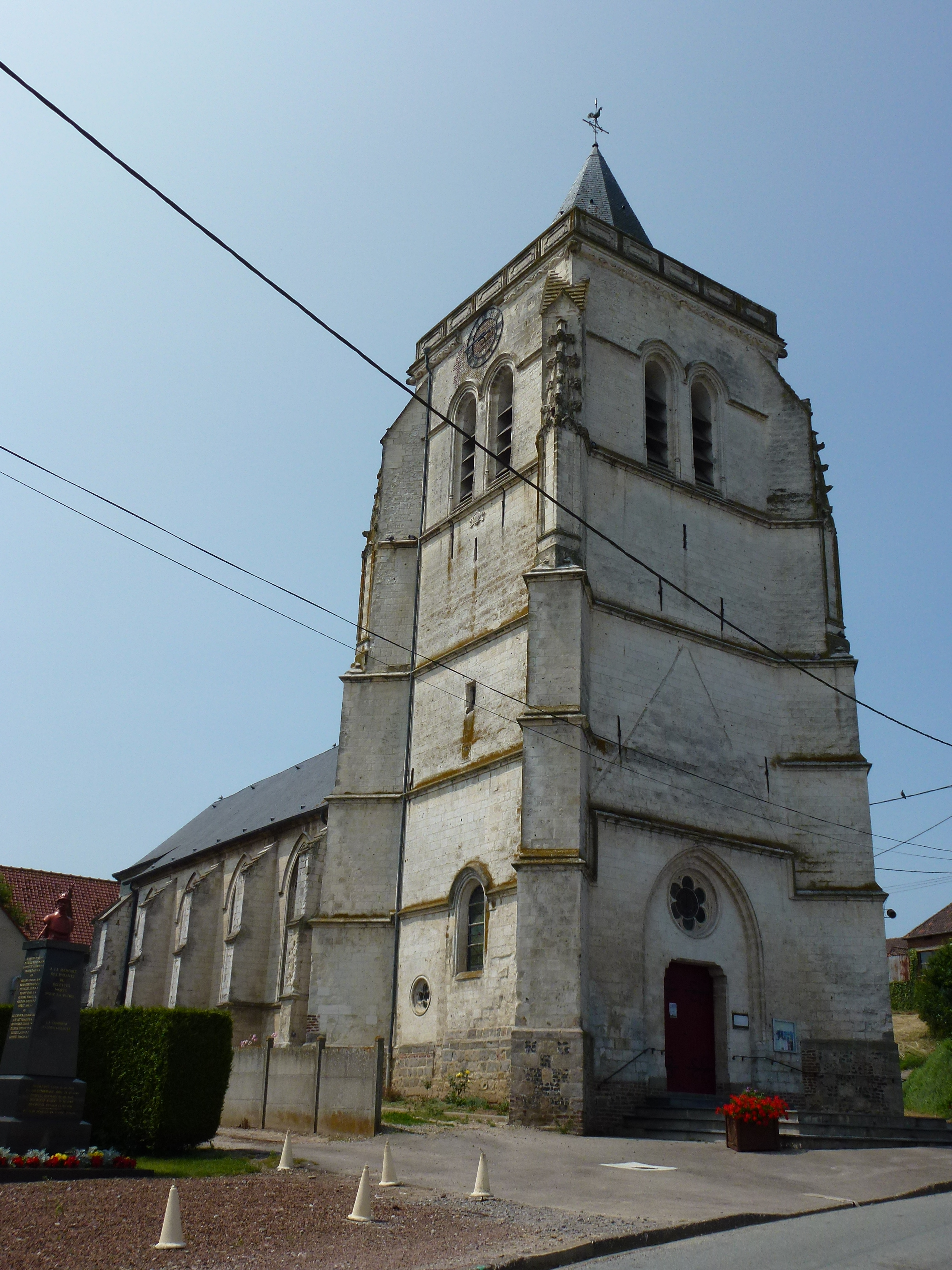 Delettes (Pas-de-Calais) église Saint-Maxime